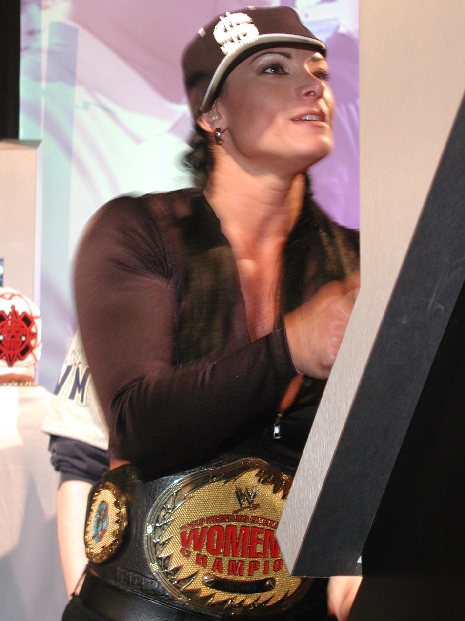 Victoria at WWE Fan Axxess. Seahawk Stadium, Seattle, WA, March 2003.